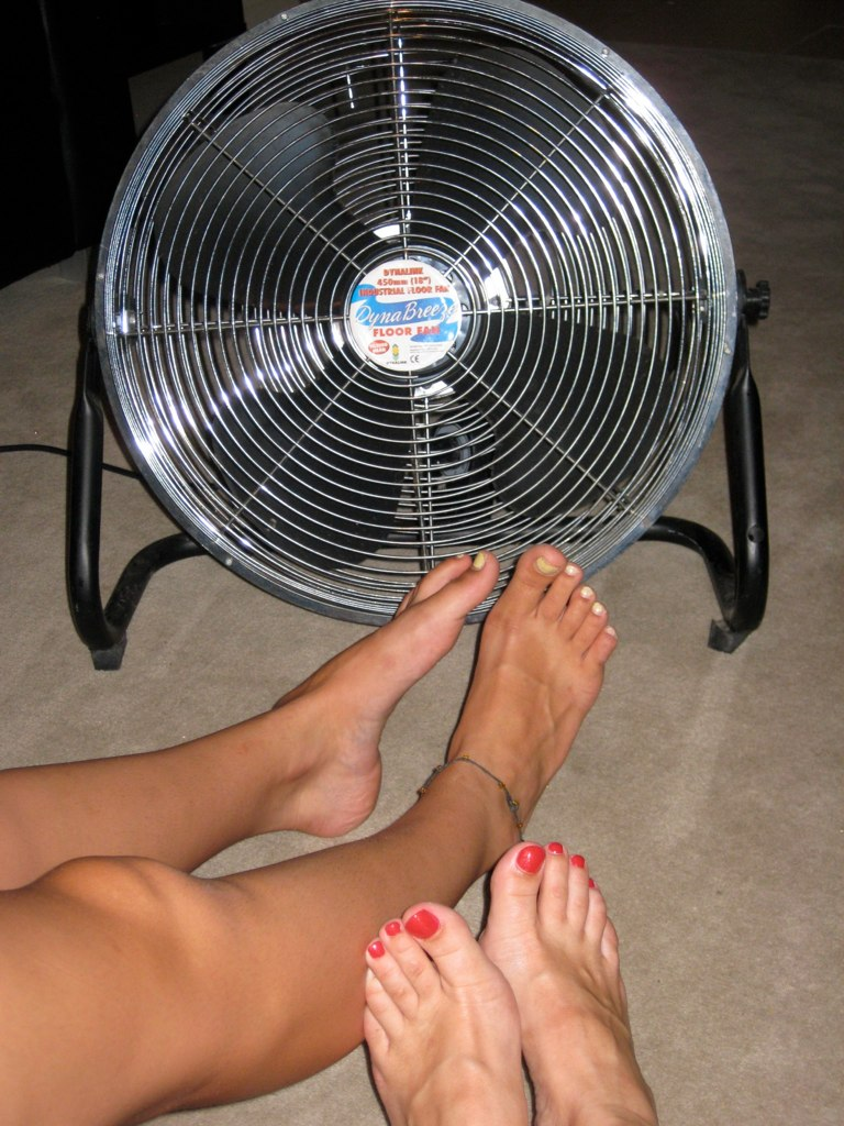 An electric fan being used in hot weather in Australia.